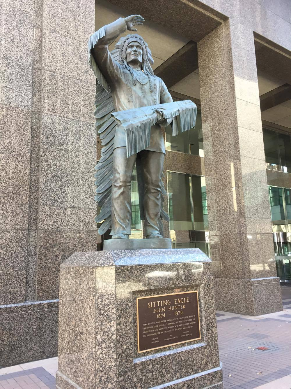 This is a statue of Chief Sitting Eagle, in front of the Encor tower in downtown Calgary, Alberta, Canada.